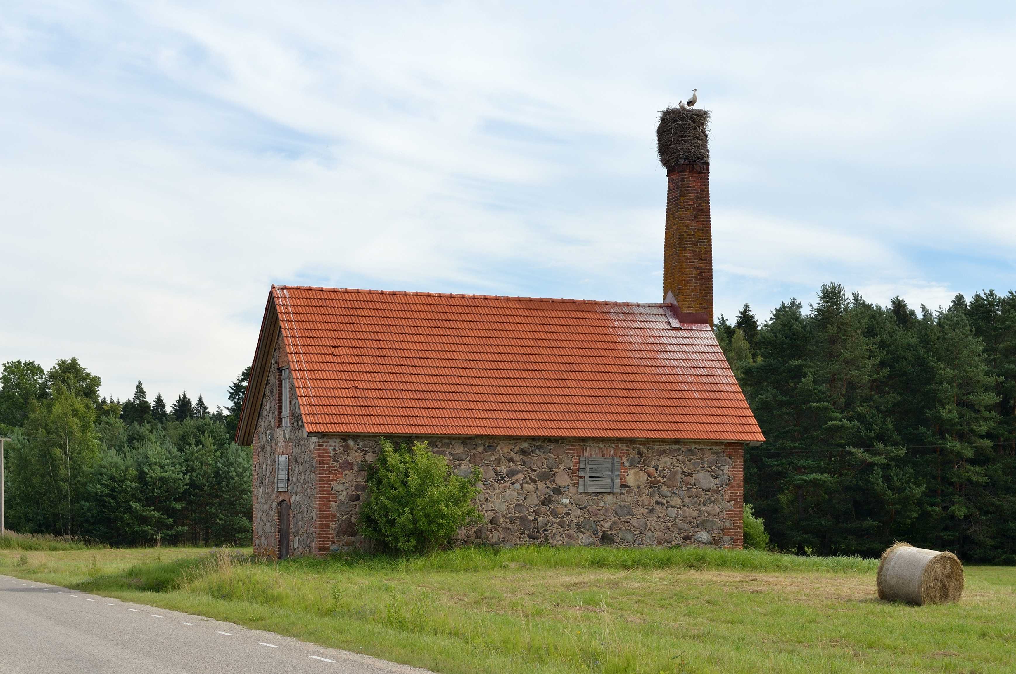 Kiidjärve manor granary-cereal dryer